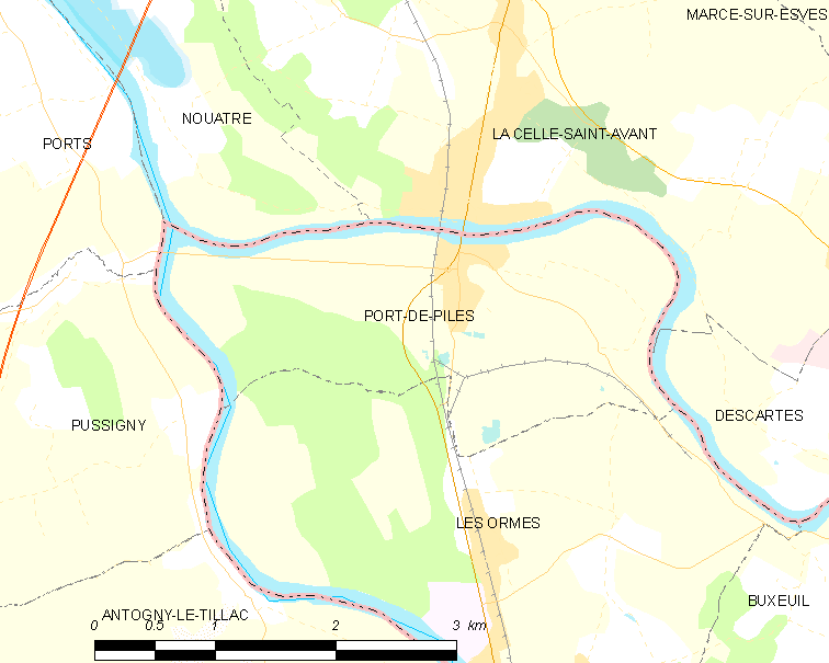 Map of French municipality Port-de-Piles